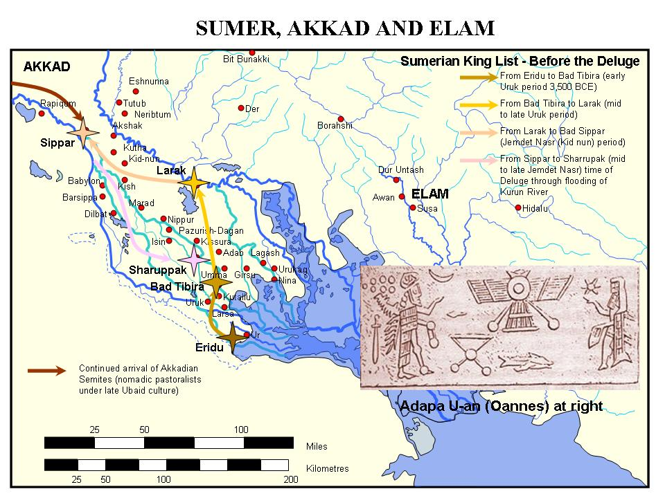 Sumer before the deluge, or Uruk and Zdemdet Nsar periods in ancient Mesopotamia.